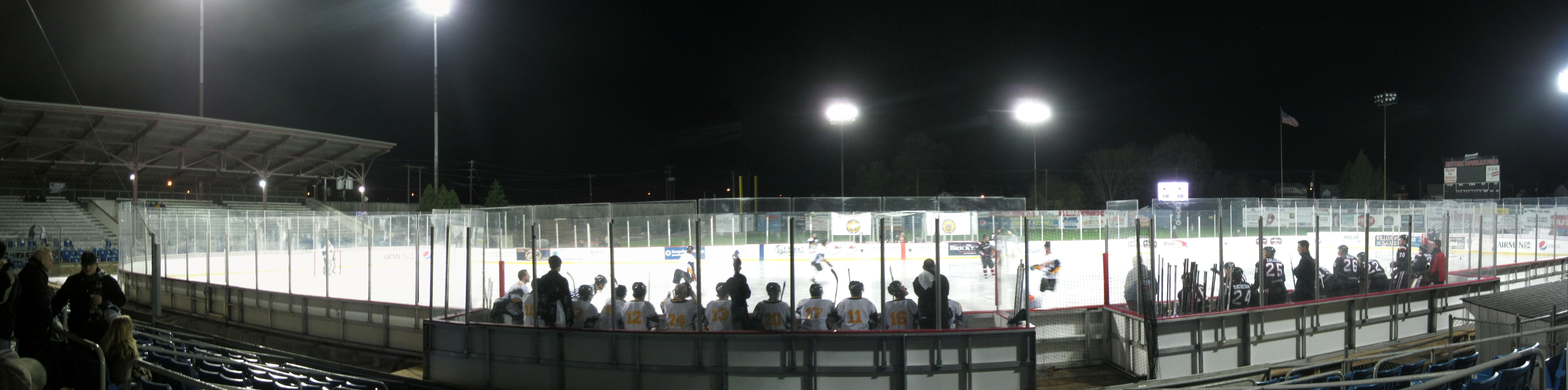 Airmen Pond ice hockey rink with the Williamsport Outlaws playing the Dayton Demonz in a Federal Hockey League game at Bowman Field stadium in Williamsport, Pennsylvania, USA